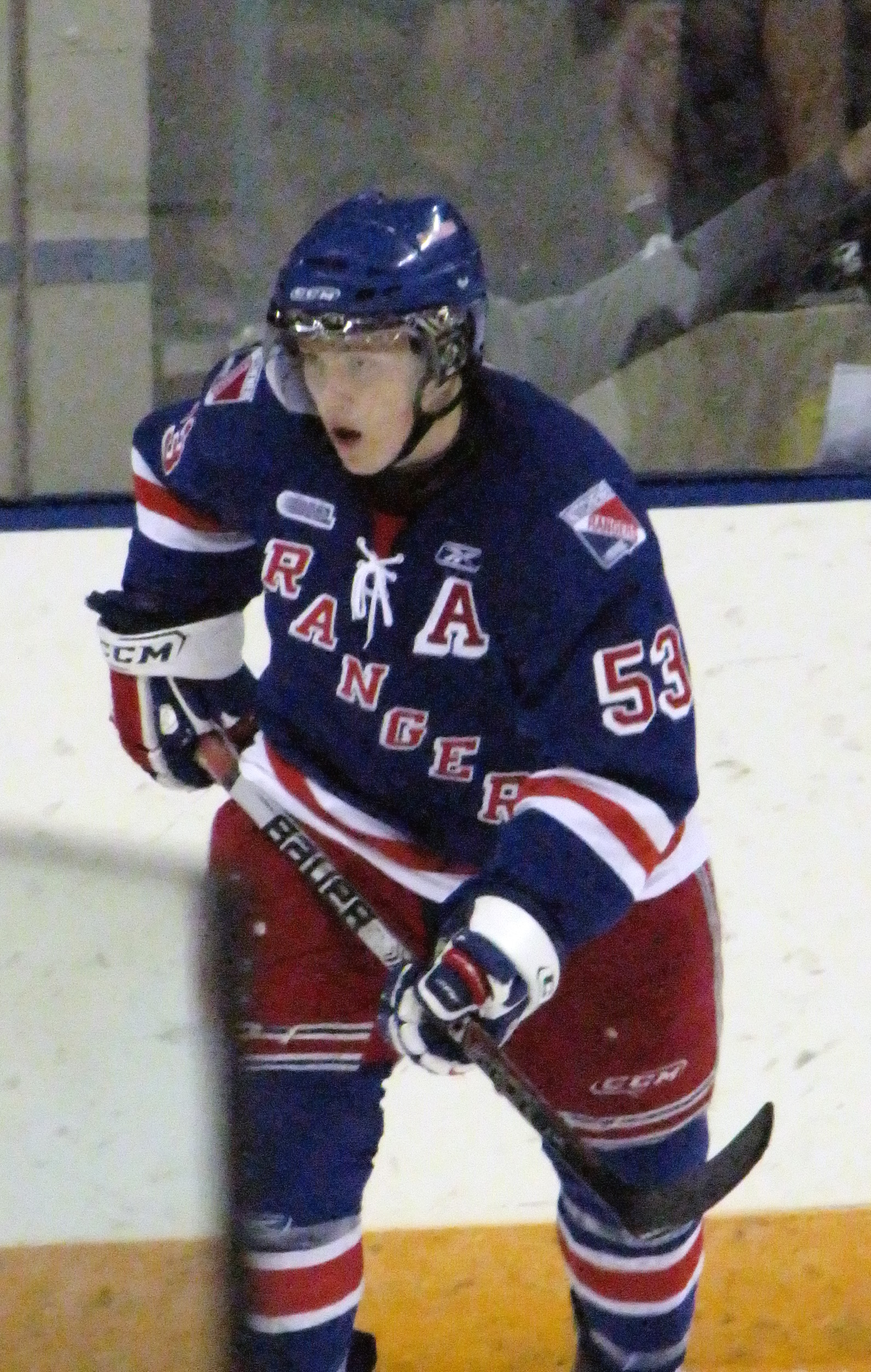 Jeff Skinner in action as Kitchener Ranger in preseason hockey